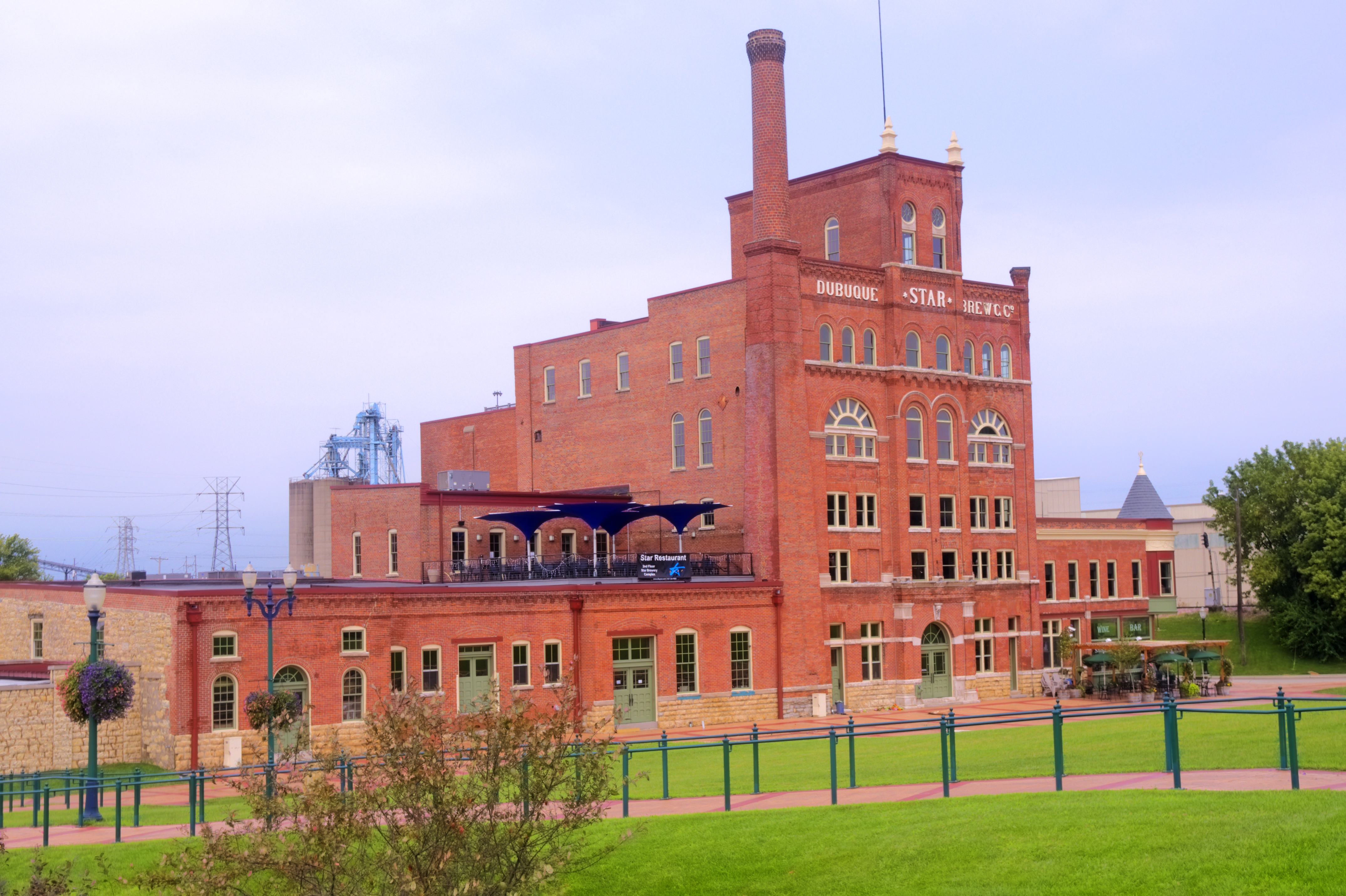 Star Brewery Building in Dubuque Iowa